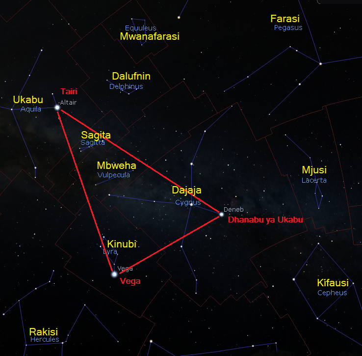 The Summer Triangle as seen from Tanzania, Swahili labelled Kiswahili: Pembetatu ya Kiangazi (Summer Triangle) jinsi inavyoonekana kutoka Tanzania, majina kwa Kiswahili